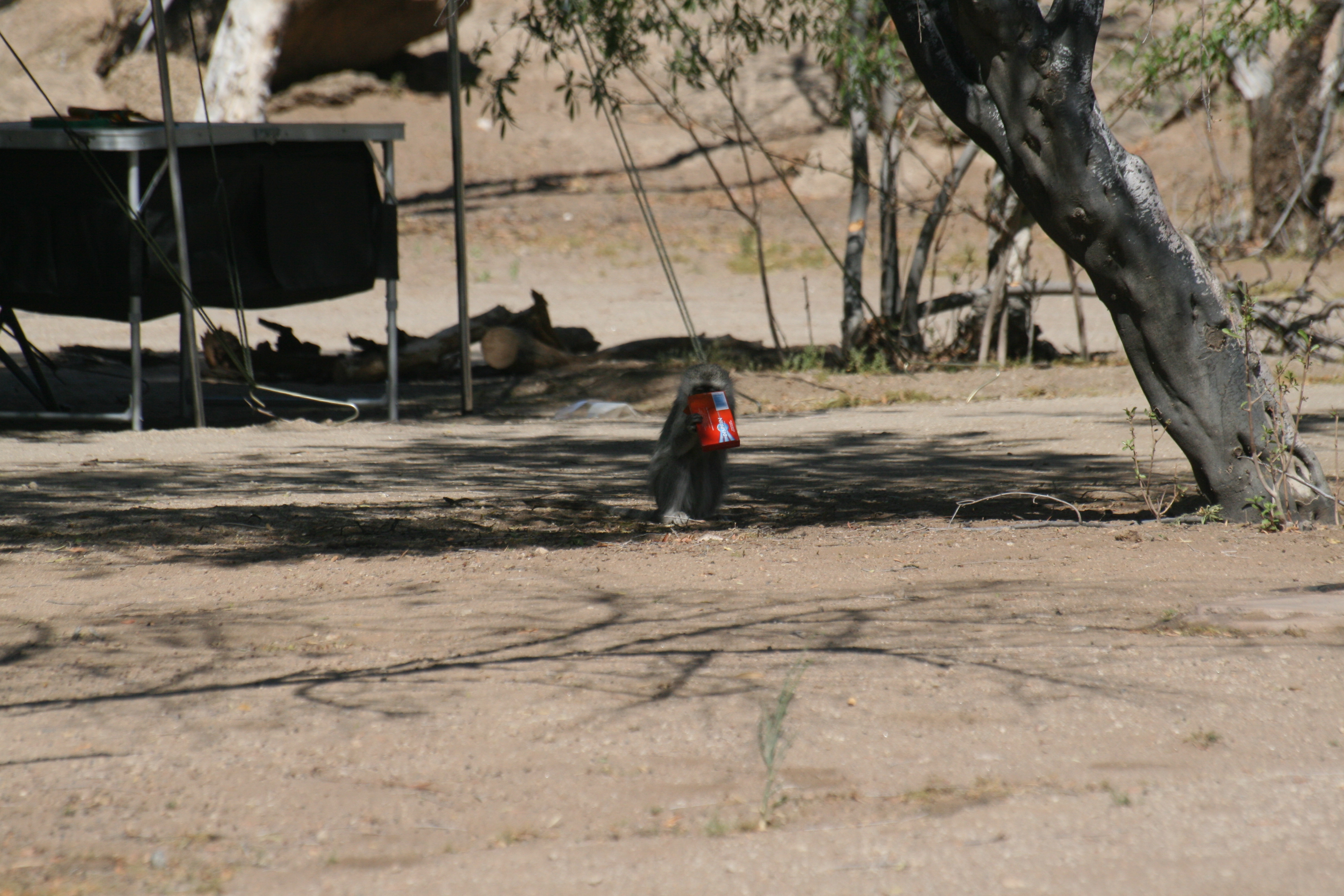 A Vervet Monkey with a box of Asprin stolen from the campers in the Augrabies Falls National Park, South Africa